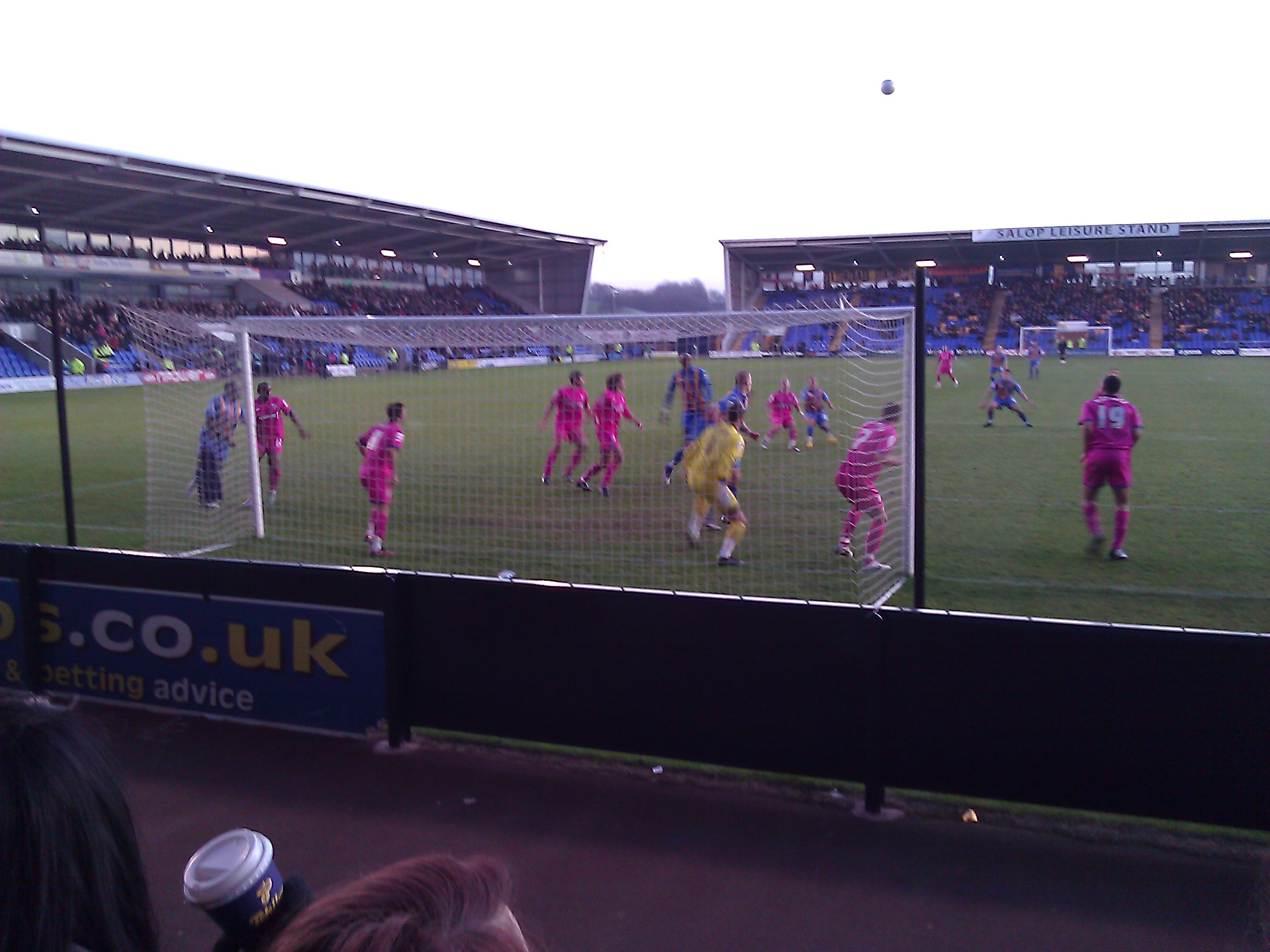 Shrewsbury Town F.C. vs Gillingham F.C. in January 2012. I took the picture myself.